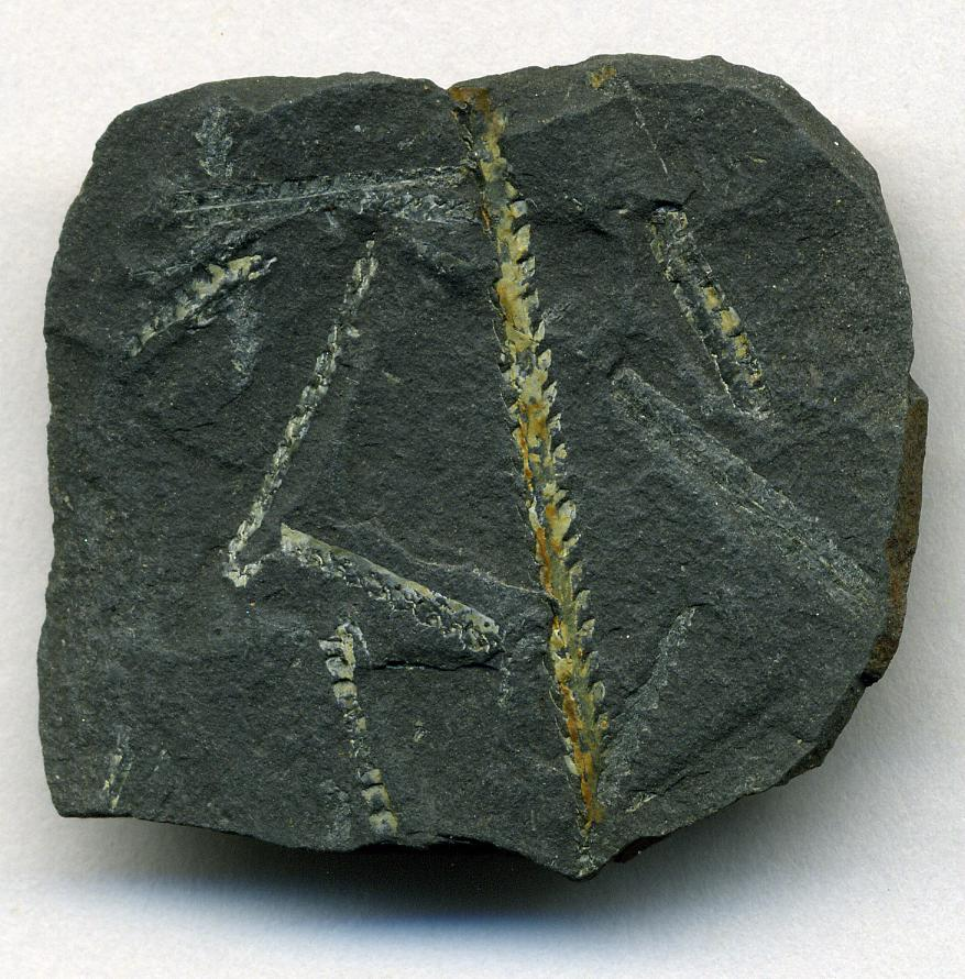 Climacograptus wilsoni (Lapworth, 1876) graptolite fossils on basinal black shale (26 x 25 millimetres) of middle Ordovician age (Soudleyan Stage, ~mid-Caradocian) from main cliff at Dob’s Linn (about 36.1-43.1 metres below the Ordovician-Silurian boundary GSSP), north side of A708 road, just west of the small village of Burkhill, about 20 kilometres northeast of Moffat, Scotland.